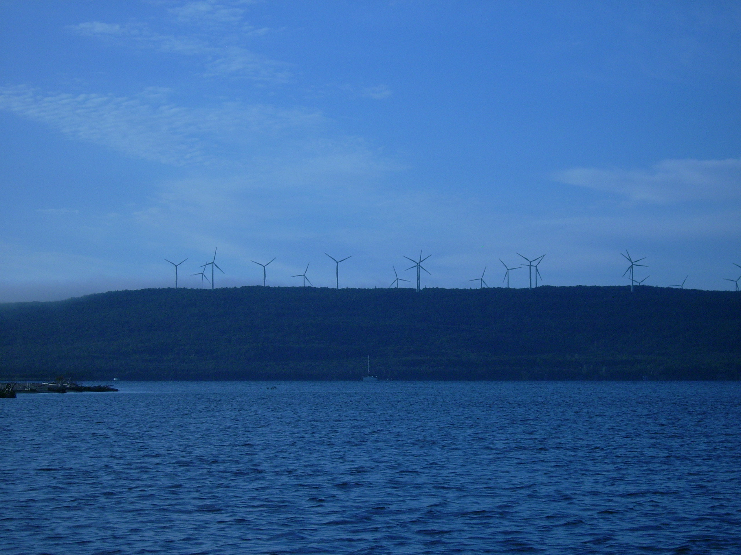 Prince Wind Farm from Goulais Bay (Lake Superior).